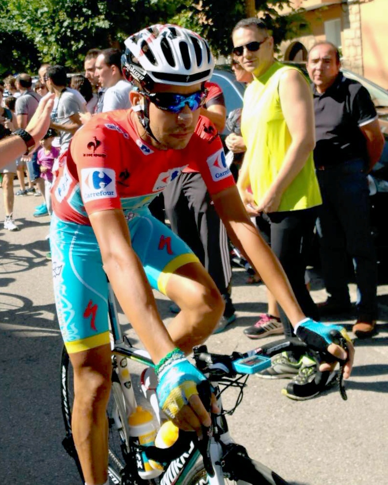 Fabio Aru (Astana) with the red jersey during 2015 Vuelta a España